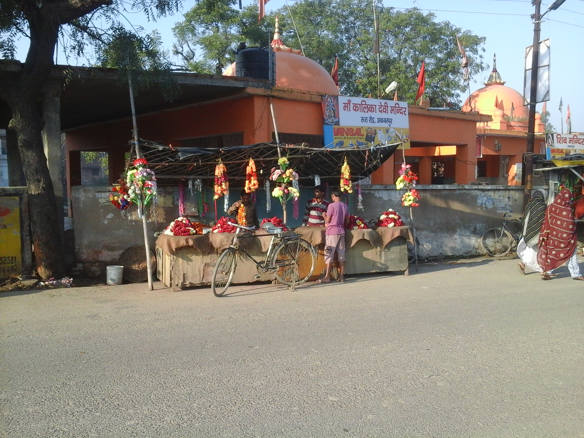 Front view of Ma Kalika Devi Temple Rura Road ,Akbarpur Kanpur Dehat ,Uttar Pradesh,India.